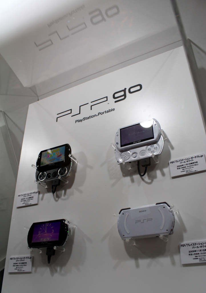 Day 1. PSP go display at SCE area. It was nicer than i expected to play with it. Really lookin forward buy this on 1st Nov!!!